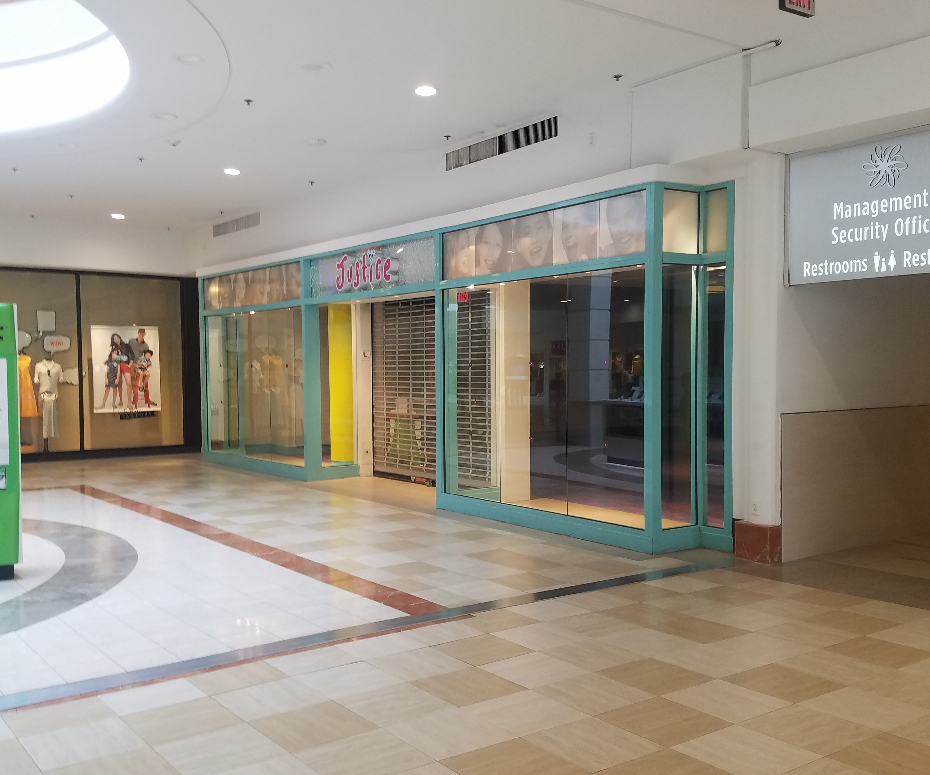 A closed clothing store at in; taken August 16, 2020.